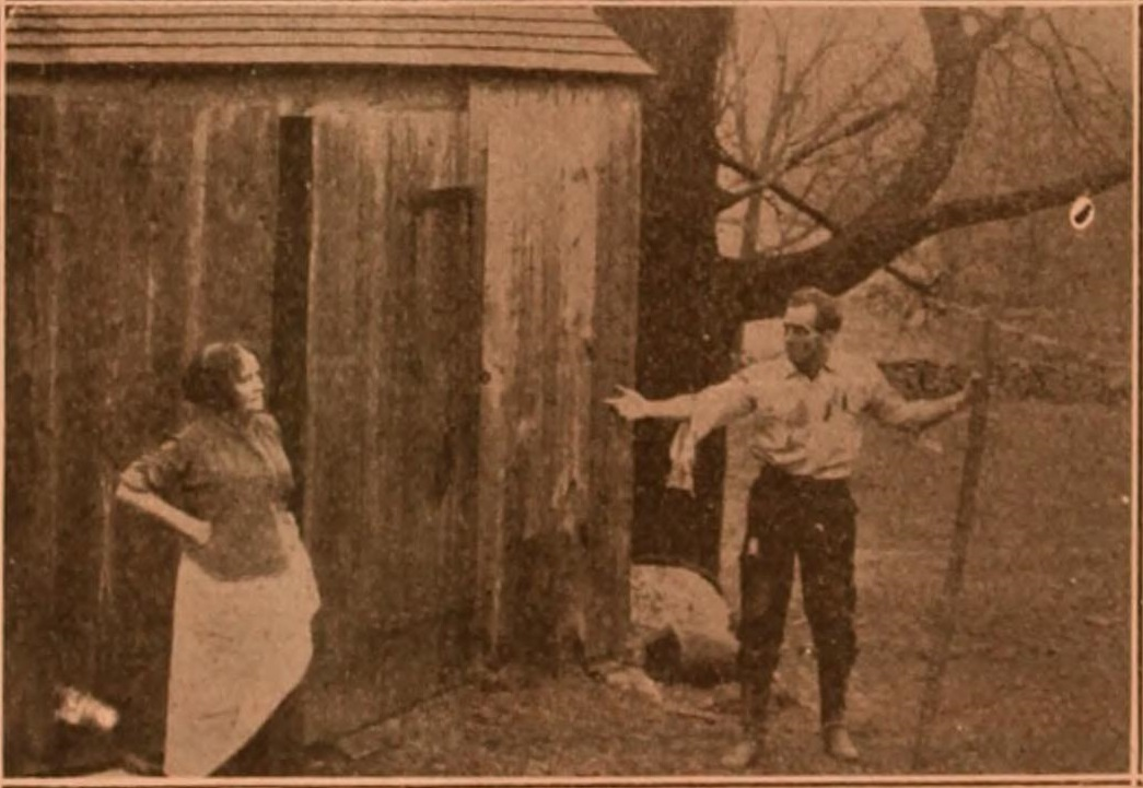 A film still from The Mad Hermit by the Thanhouser Company